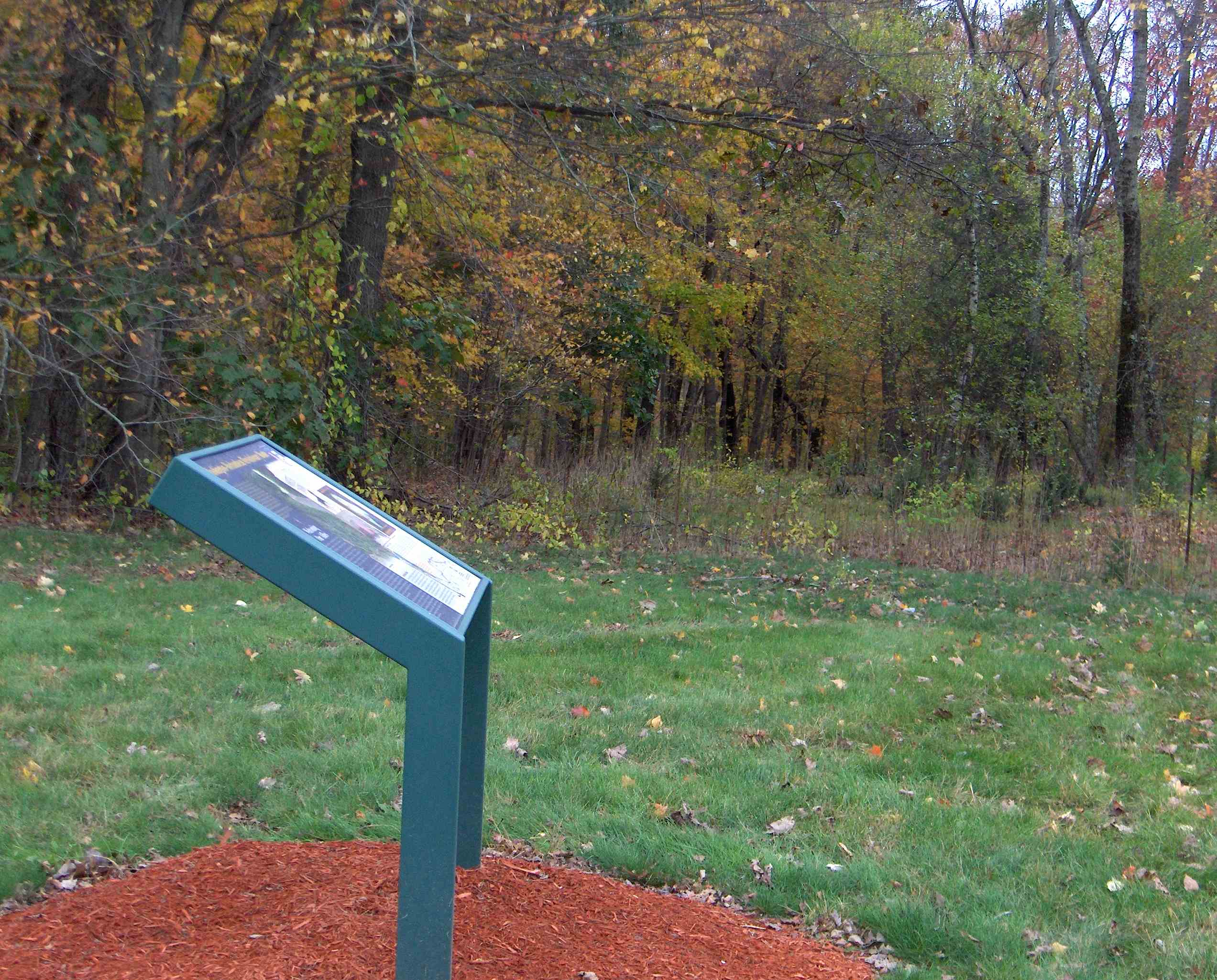 Photo taken a few hundred yards from Bailey Road, at informational sign discussing the March Route of Rochambeau's Army